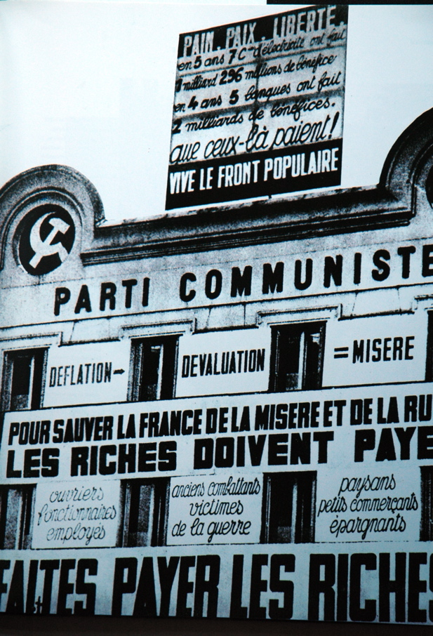 Building 120 rue Lafayette, Paris 10th arrond. In april 1936, when it was the head office of Central Comity of the French Communist Party (FCP).